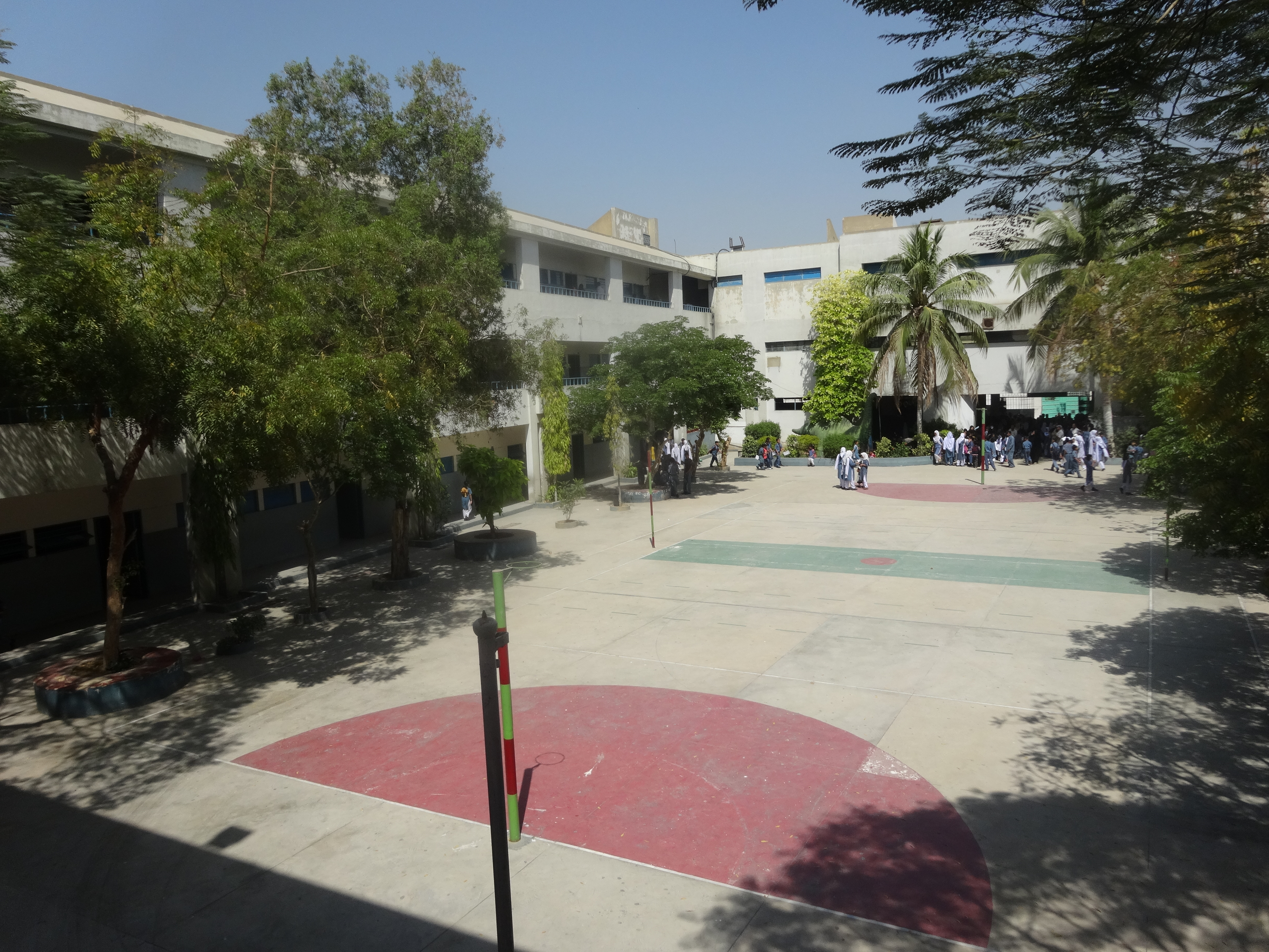 ناصرہ اسکول ملیر کیمپس